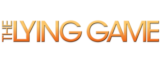 Logo of The Lying Game